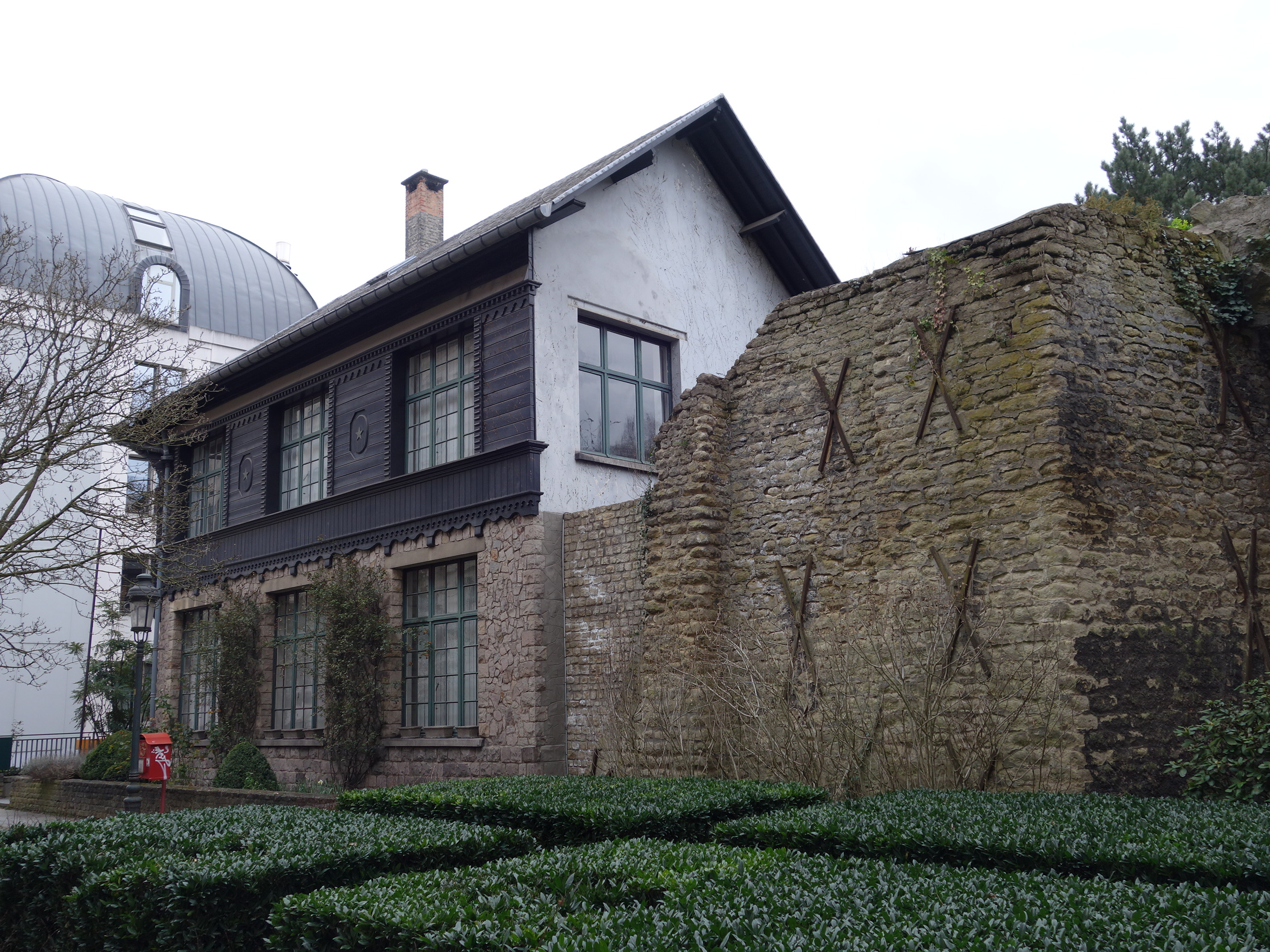 Norwegian chalet (1906), designed by Ivar A. Knudsen for King Leopold II of Belgium. Headquarters of the Congo Free State.